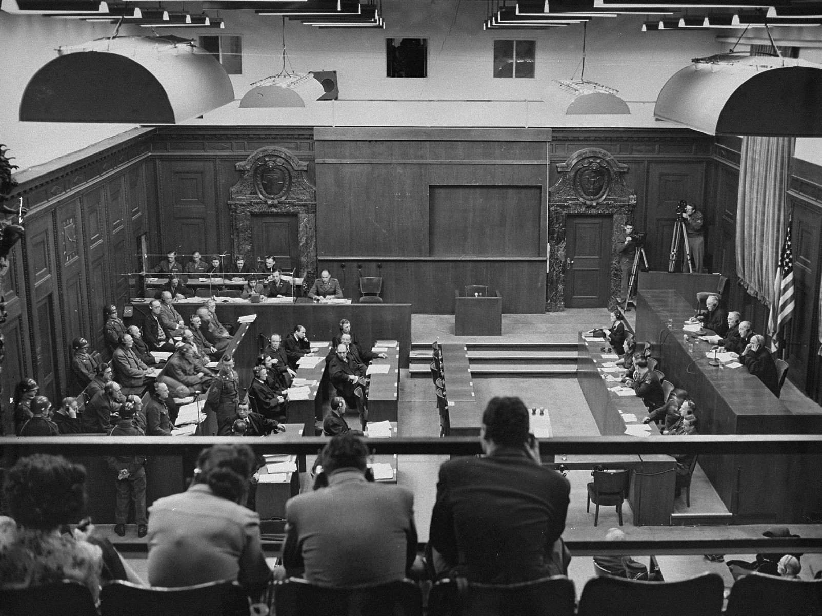 see title